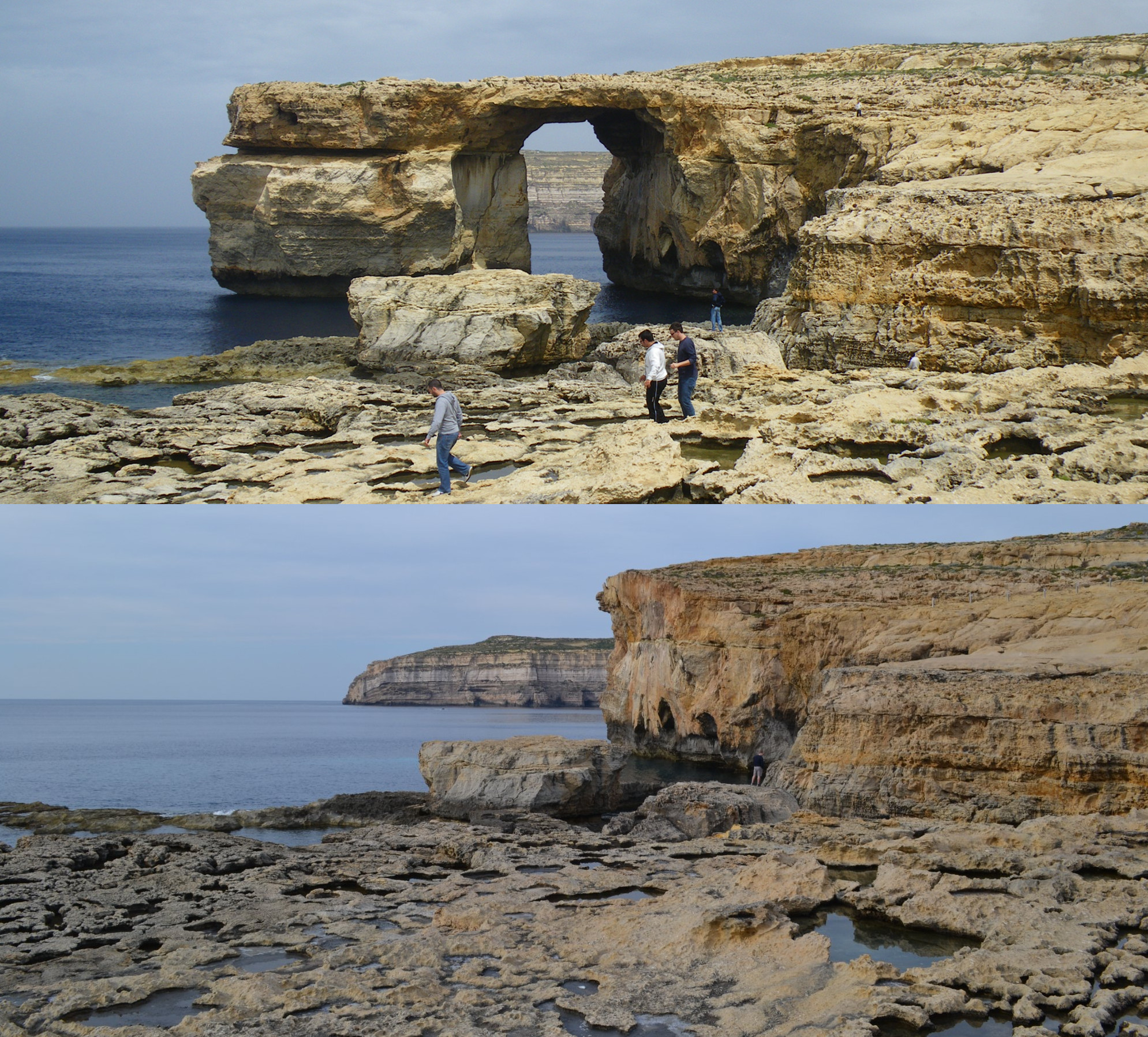 Comparision picture before and after the collapse of the Azure Window, Malta, Gozo